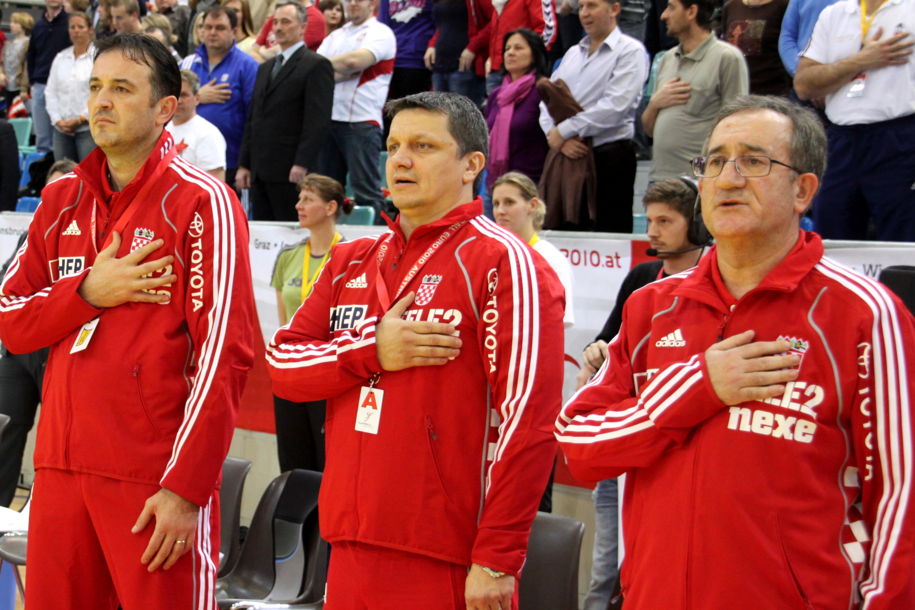 Lino Červar (Teamchef) with his Co-Coaches Ivica Udovičić and Slavko Goluža, Croatia national handball team (from right to left)